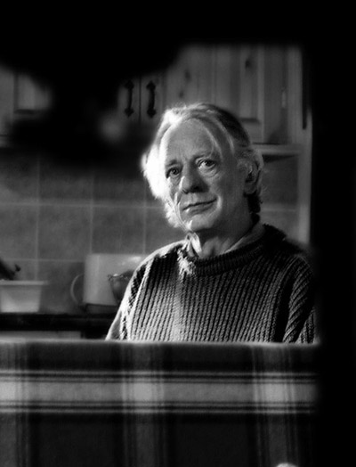 Phot of Mick Lally